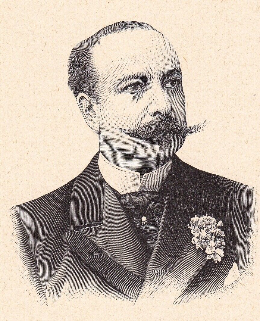 French novelist and short-story writer Richard O'Monroy (1849-1916)